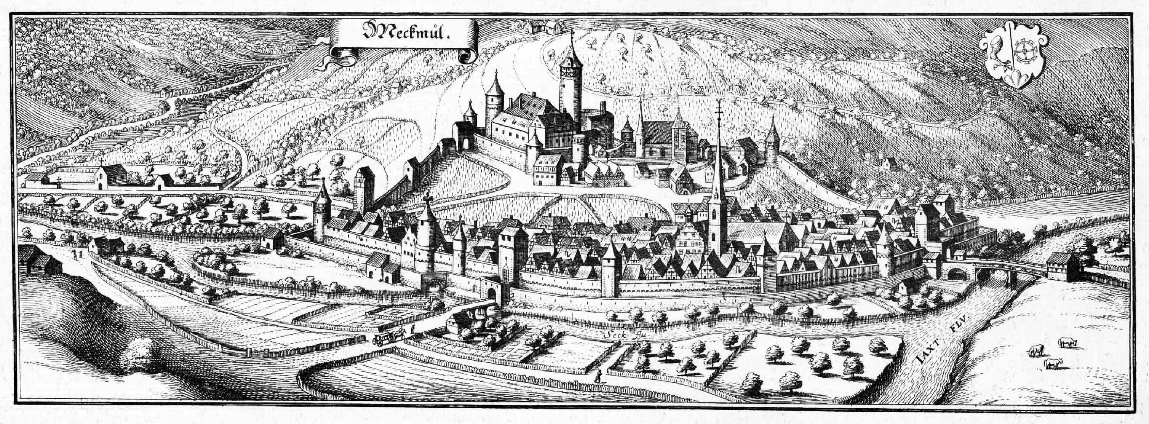 Möckmühl in about 1640. Illustration from Matthäus Merian's Topographia Sveviae, 1643/56